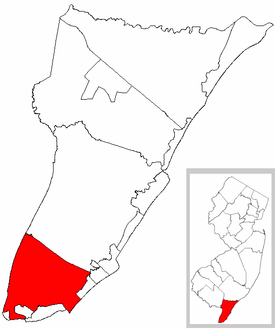 Map of Cape May County highlighting Lower Township